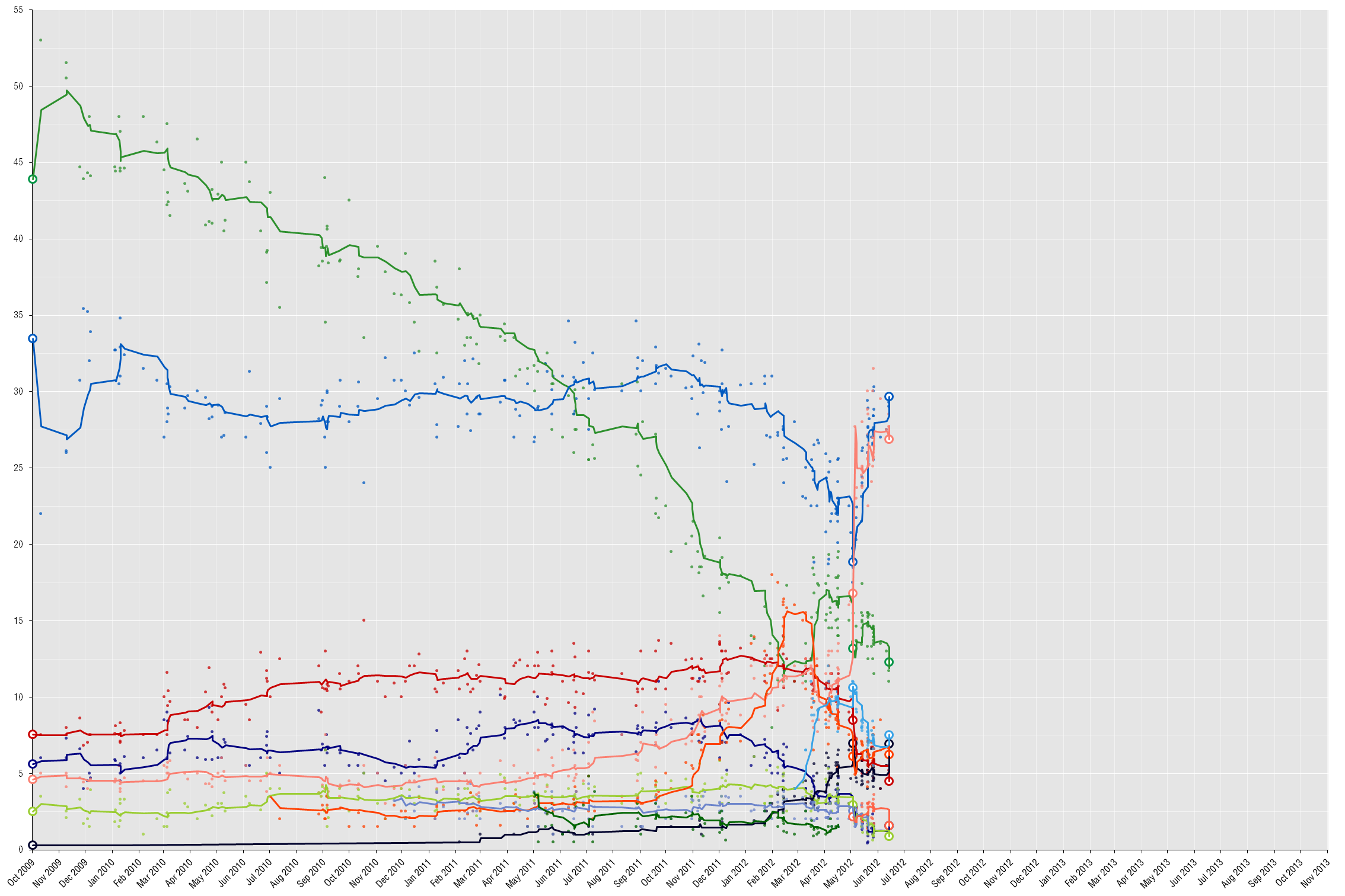 10-point average trend line of poll results from 4 October 2009 to 17 June 2012, with each line corresponding to a political party. PASOK ND KKE LAOS Syriza OP XA DIMAR DISY PARMAP ANEL DIXA